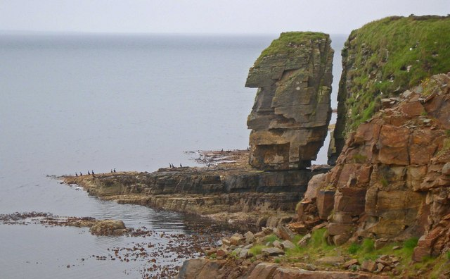 Sea stack at southern edge of Lingavi Geo, Shapinsay east coast. With seabirds on cliffs and shoreline rocks.